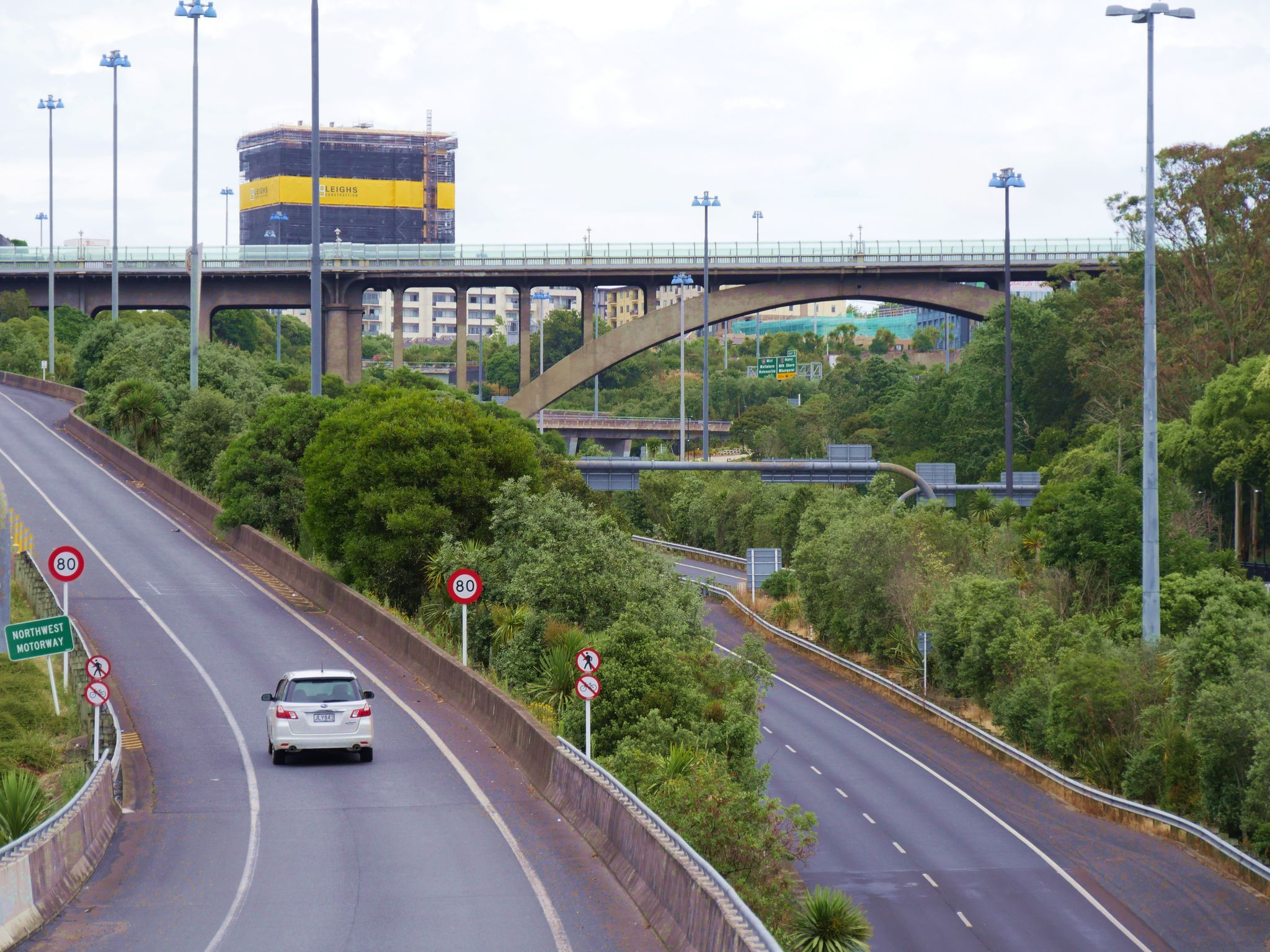 Grafton Bridge, Auckland, New Zealand (view from the north), bridge build 1910